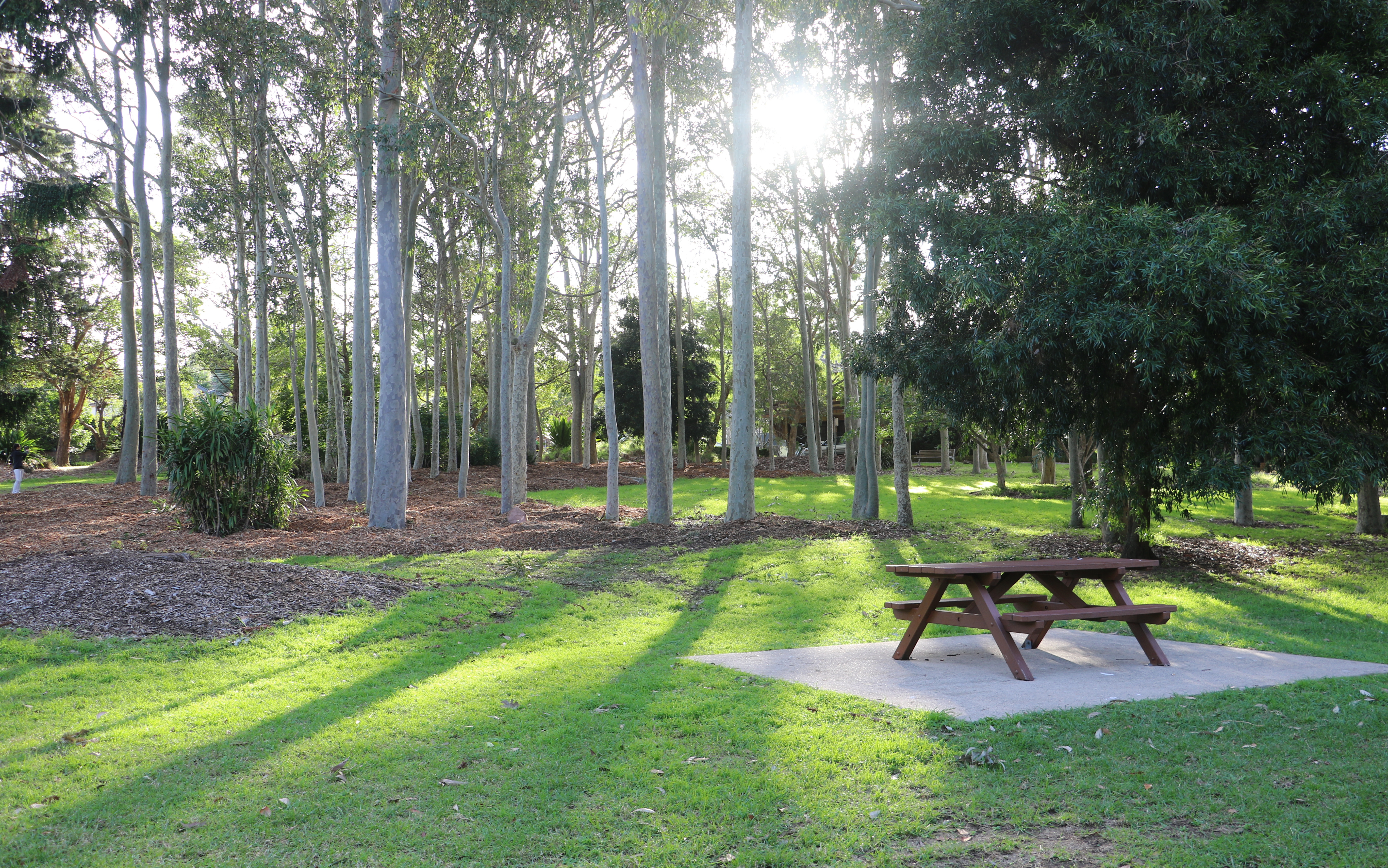 Spotted gums at Muston Park, King George VI Memorial Grove. Corymbia maculata & Podocarpus elatus